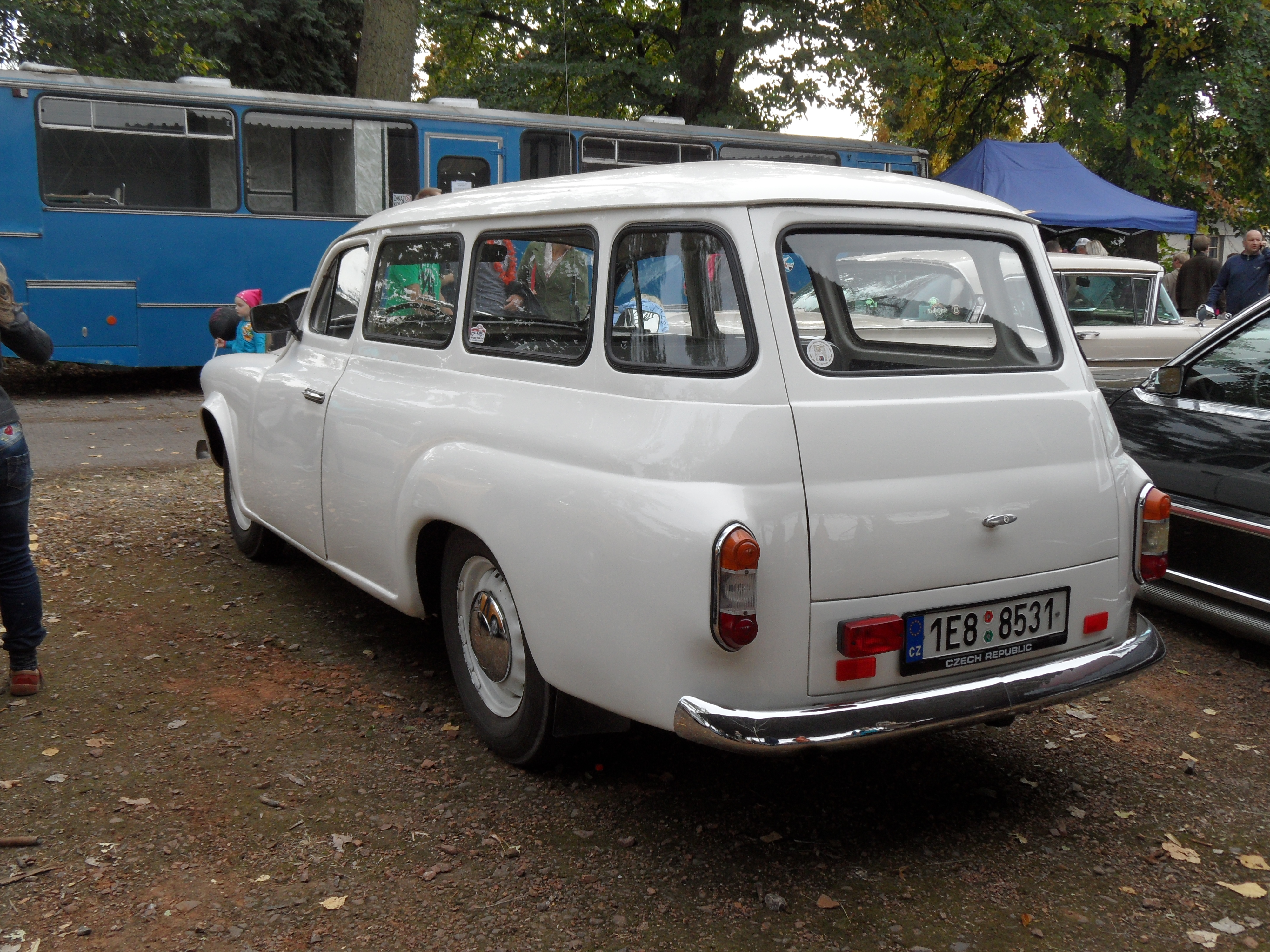 Retro City. Saturday: Main Programme, Classic cars. G16. Škoda Octavia? Combi. Pardubice, Pardubice District, the Czech Republic.